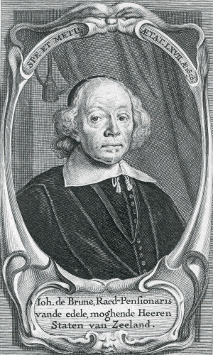 Johan de Brune de Oude ["The Elder"] (11588 - 1658), Grand Pensionary of Zeeland from 1649 till 1658